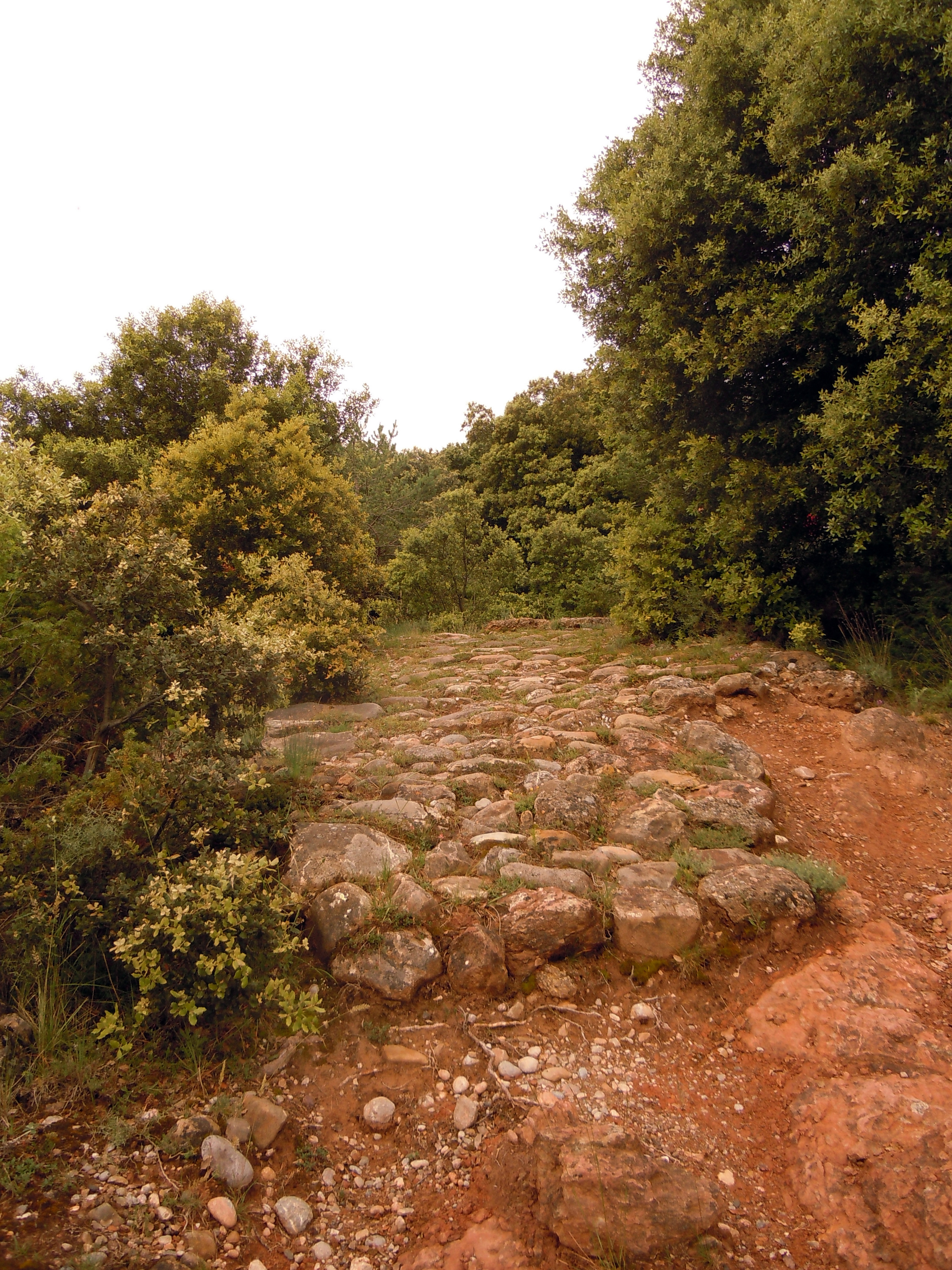 Roman way of Capsacosta in Catalonia